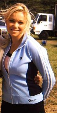 Holly Brisley Taken during a break in filming at Palm Beach